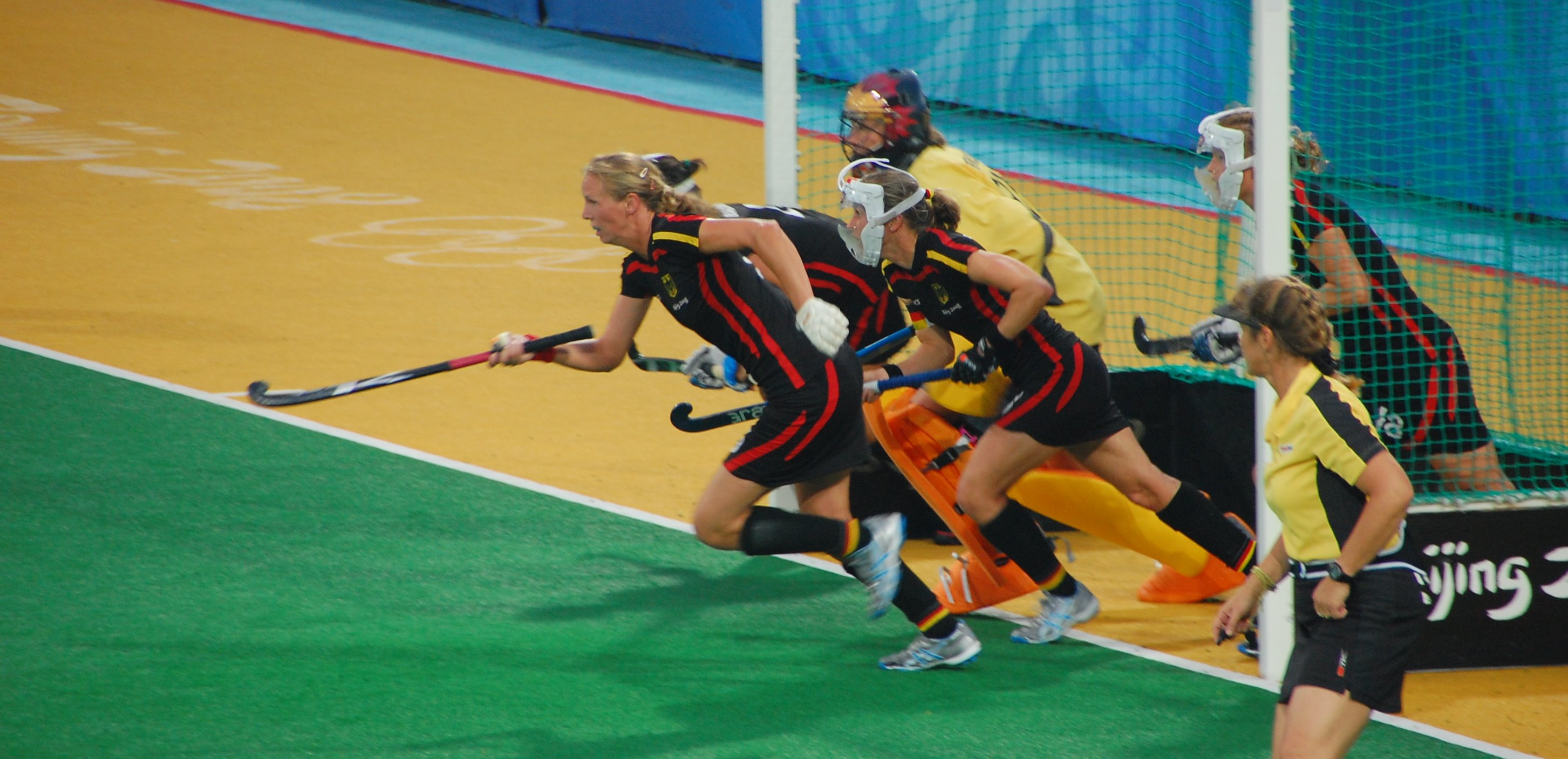 Field hockey (F) at the Beijing Olympics - Germany v. China, semi-final